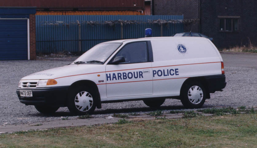 Astra F Van